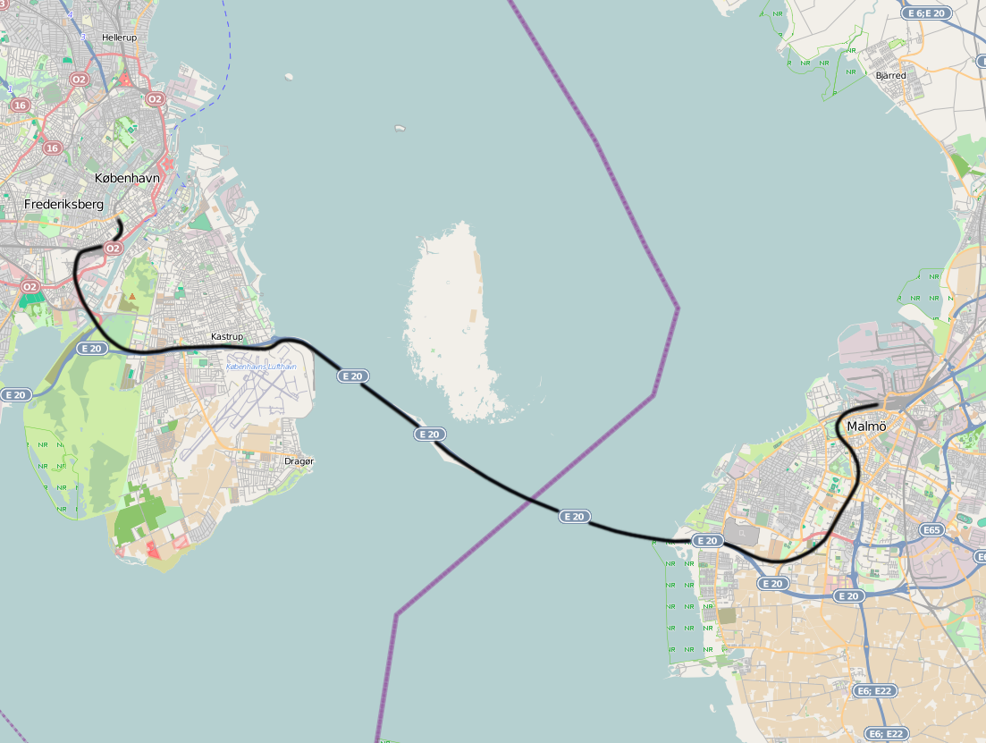 Railway line Copenhagen - Malmö